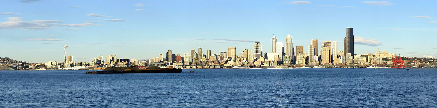 Seattle, Washington skyline. User:Jmabel remarks: not sure exactly where this is from in West Seattle, but it's not from Alki. Maybe near Seacrest Park? Most of this south of about the Space Needle is not visible from Alki. This version has been cropped relative to the source (File:Seattle, Washington, skyline.jpg). The crop was not done losslessly – the re-save introduced additional minor JPEG artifacts. In email, the copyright holder confirmed to User:Zeimusu that User:DubbaG is the uploader, and this image is licensed under GFDL.